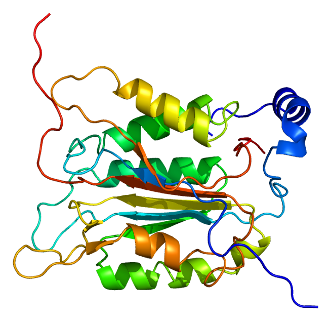 Structure of the CASP1 protein. Based on PyMOL rendering of PDB 1bmq.